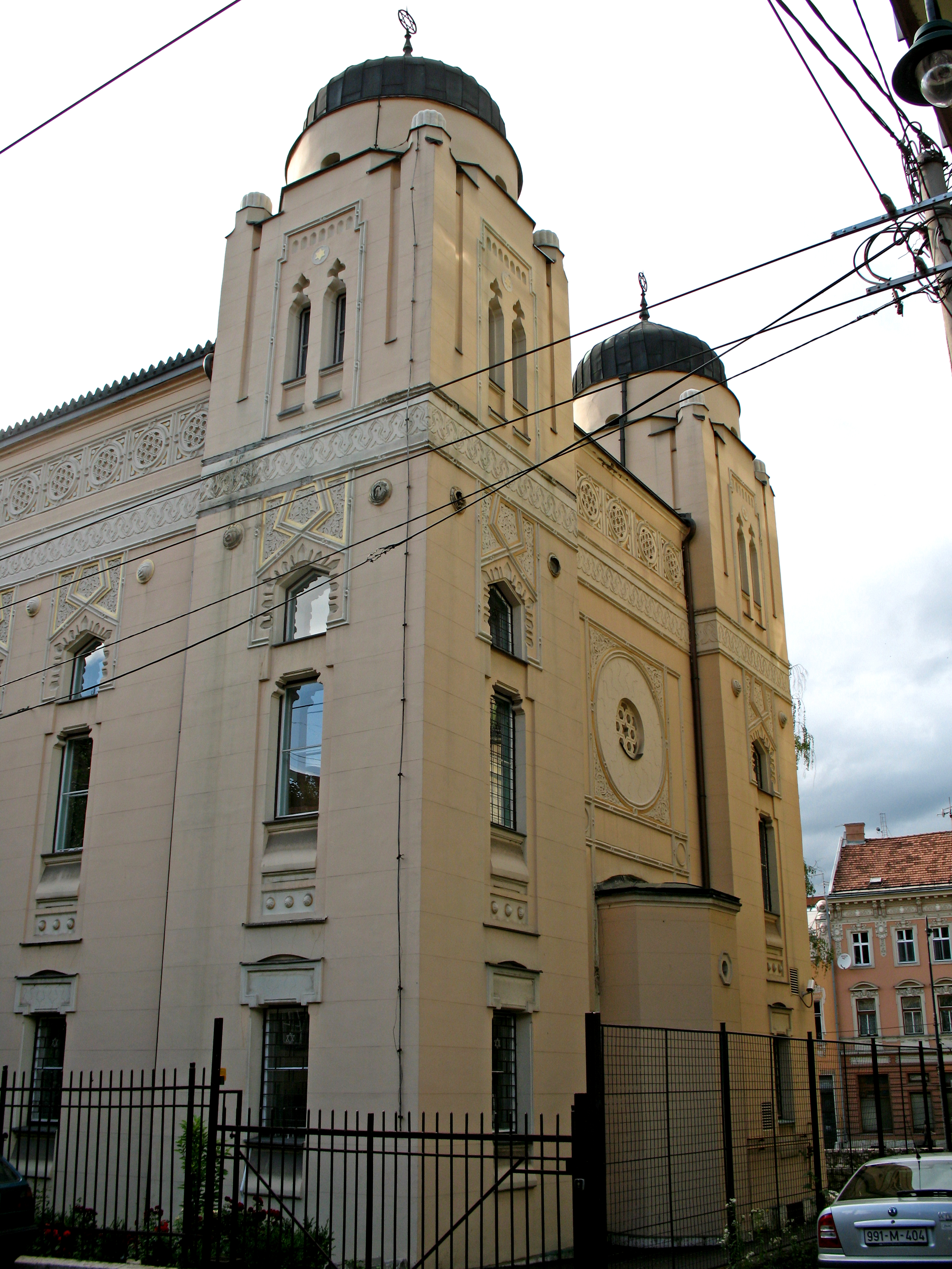 It was built in 1902 and it is the only active synagogue in Sarajevo. It is believed to be the third biggest synagogue in Europe.